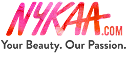 It is a logo